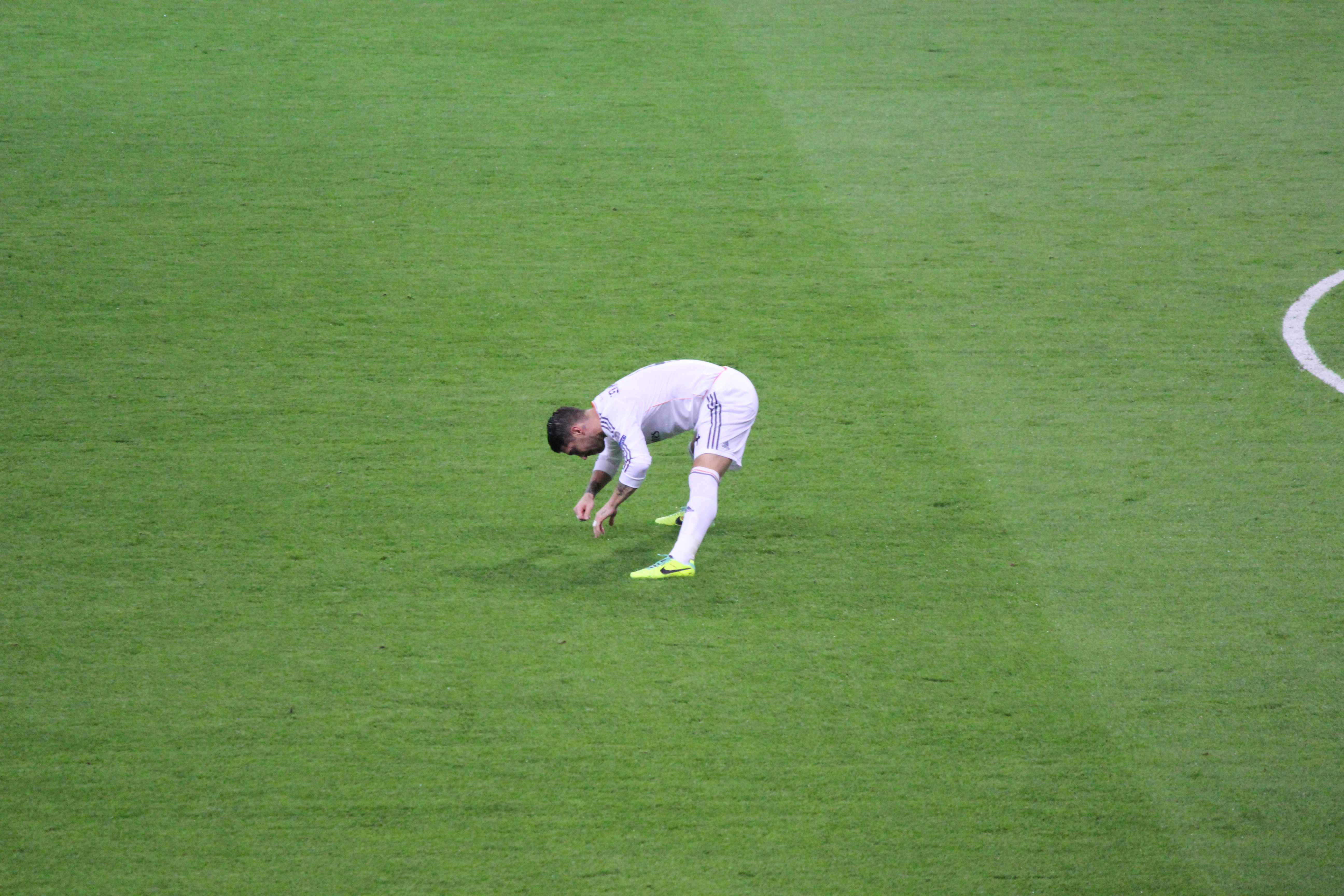 Real Madrid vs Juventus, 24 October 2013 Champions League